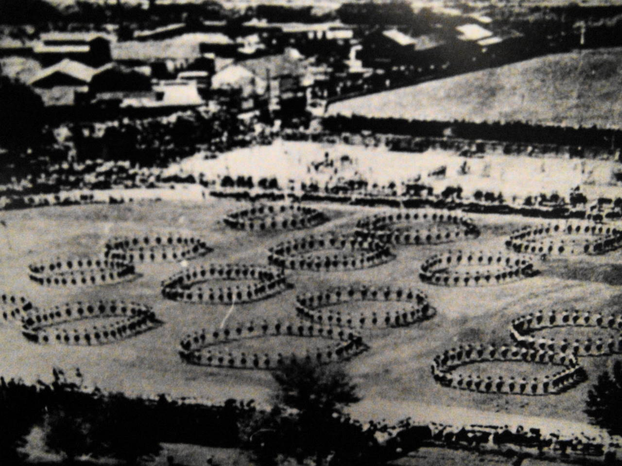 Yamanashi Iida Baseball Stadium Aerial Photo May.1929